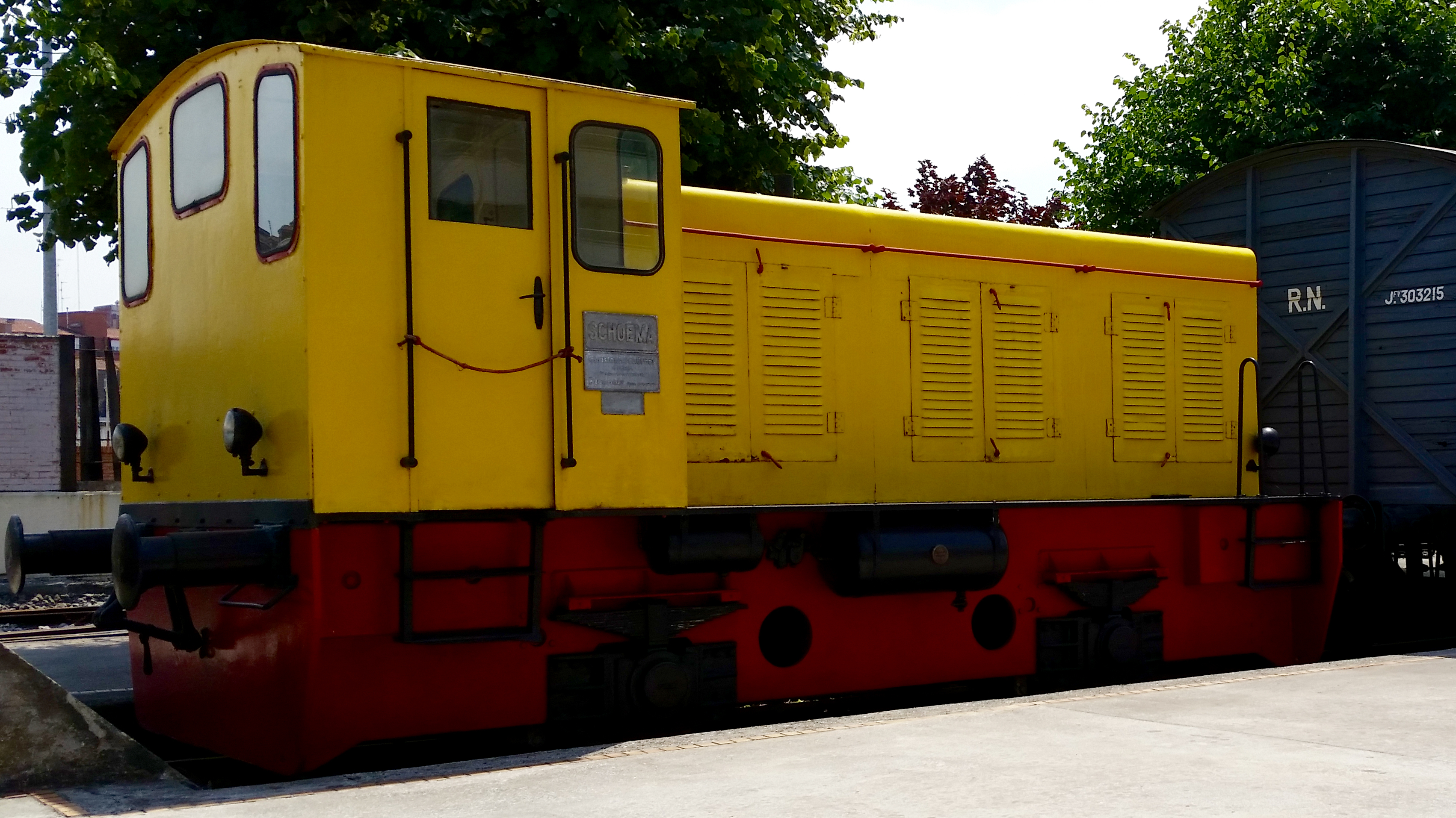 Locomotora Diesel fabricada por Schöma en 1956 para la RCAM